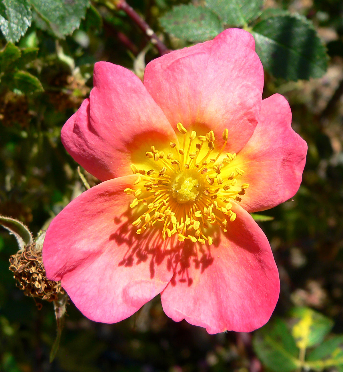 Rosa 'Lady Penzance' at the San Jose Heritage Rose Garden